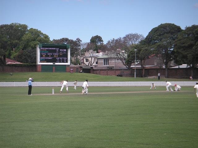 Australian cricket captain Michael Clarke batting for Western Suburbs against North Sydney in a grade cricket match at Pratten Park, Ashfield 13 Oct 2012